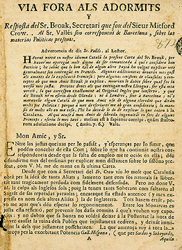 Catalan version of the Catalan/French political pamphlet "Via fora als adormits"/"Alarme aux endormis" (1734), which supported an alliance between Catalonia and Portugal. Full Catalan title is "Via fora als adormits y resposta del Sr. Broak, secretari que, fou el Sieur Mitford Crow, al Sr. Vallés, son corresponent de Barcelona, sobre les mateixes politiques presents". Full French title is "Alarme aux endormis et reponse du Sieur Broak, feu secretaire de Mitford Crow. A monsieur Valles, son correspondent de Barcelonne sur les matieres politiques d'à present". Publisher is "Aux depens d'un bon cittoien N.N. aux soins des heritiers du feu Raphael Figuero imprimeur, 1734"